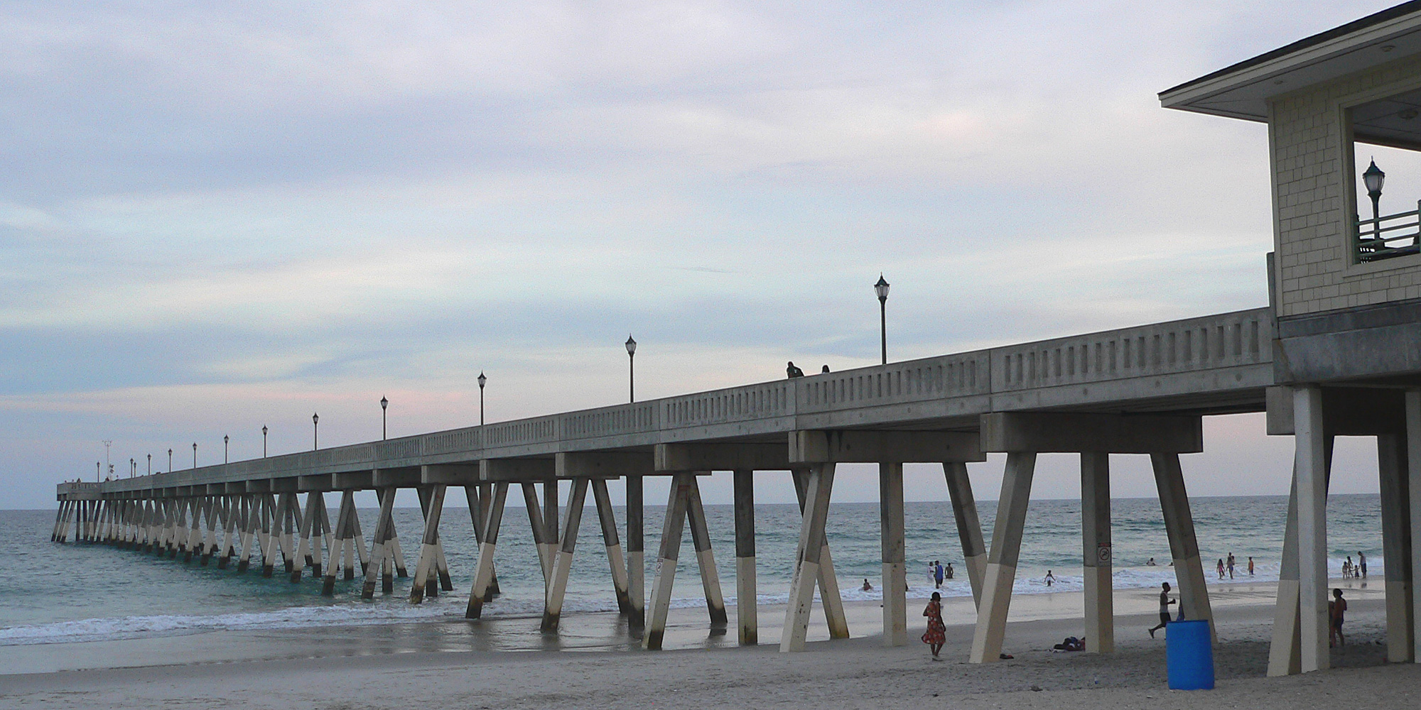 Johnny Mercer's Pier at Wrightsville Beach, North Carolina, USA.Photo taken with a Panasonic Lumix DMC-FZ20.